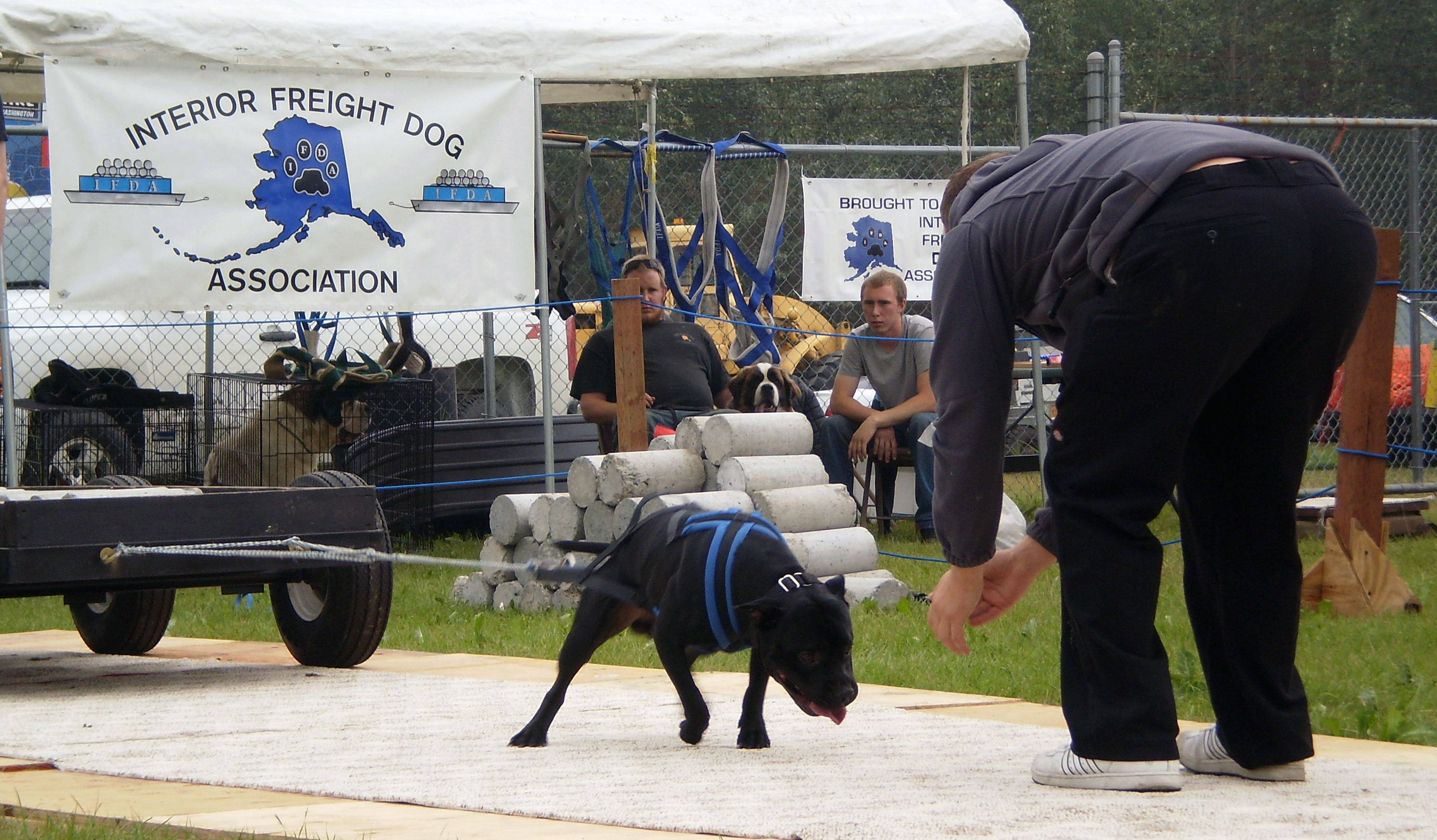 An American Staffordshire Terrier weight pulls or freighting event of the Interior (Alaska) Freight Dog Association at the 2009 Tanana Valley State Fair in Fairbanks, Alaska.